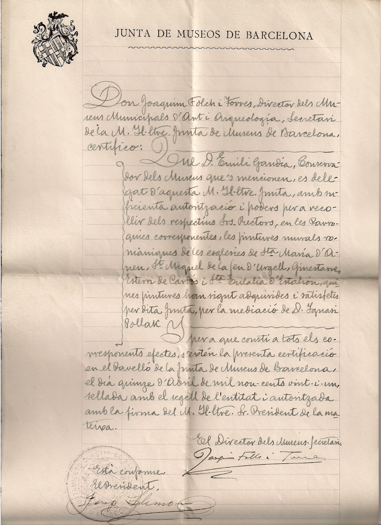 Carta Junta de Museus